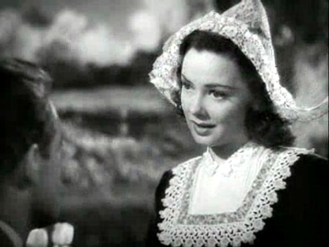 Kathryn Grayson as Billie Van Maaster in the trailer for the 1942 musical romantic comedy film Seven Sweethearts.